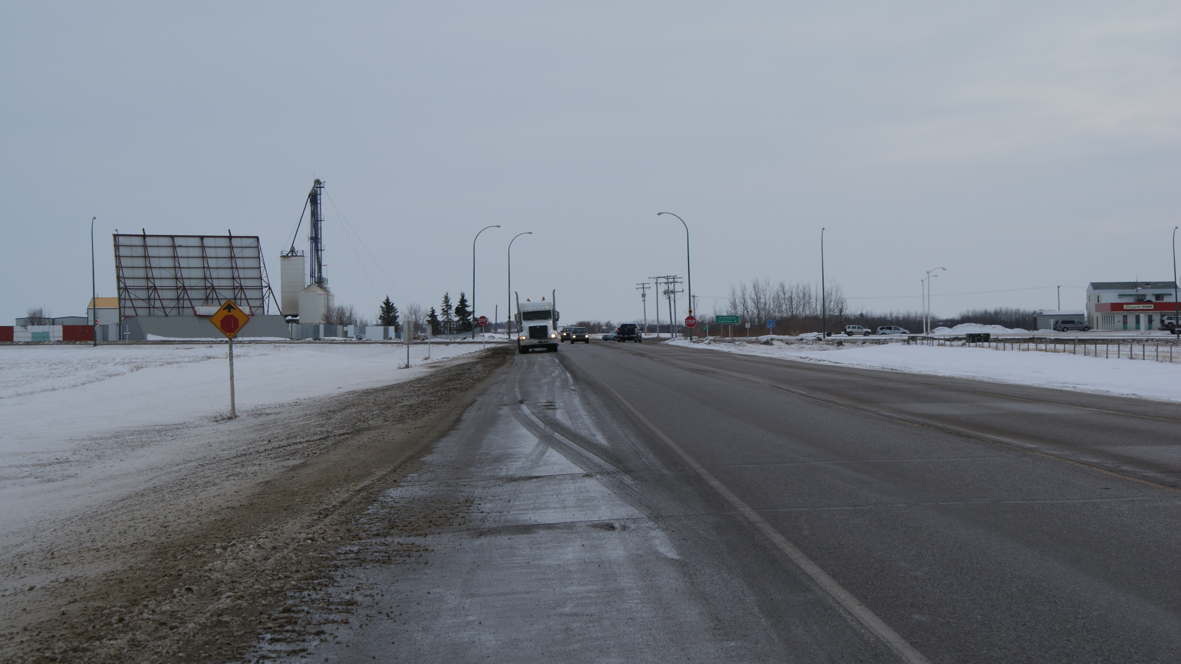 Saskatchewan Highway 41 ends at the Hwy 41 Hwy 5 intersection.